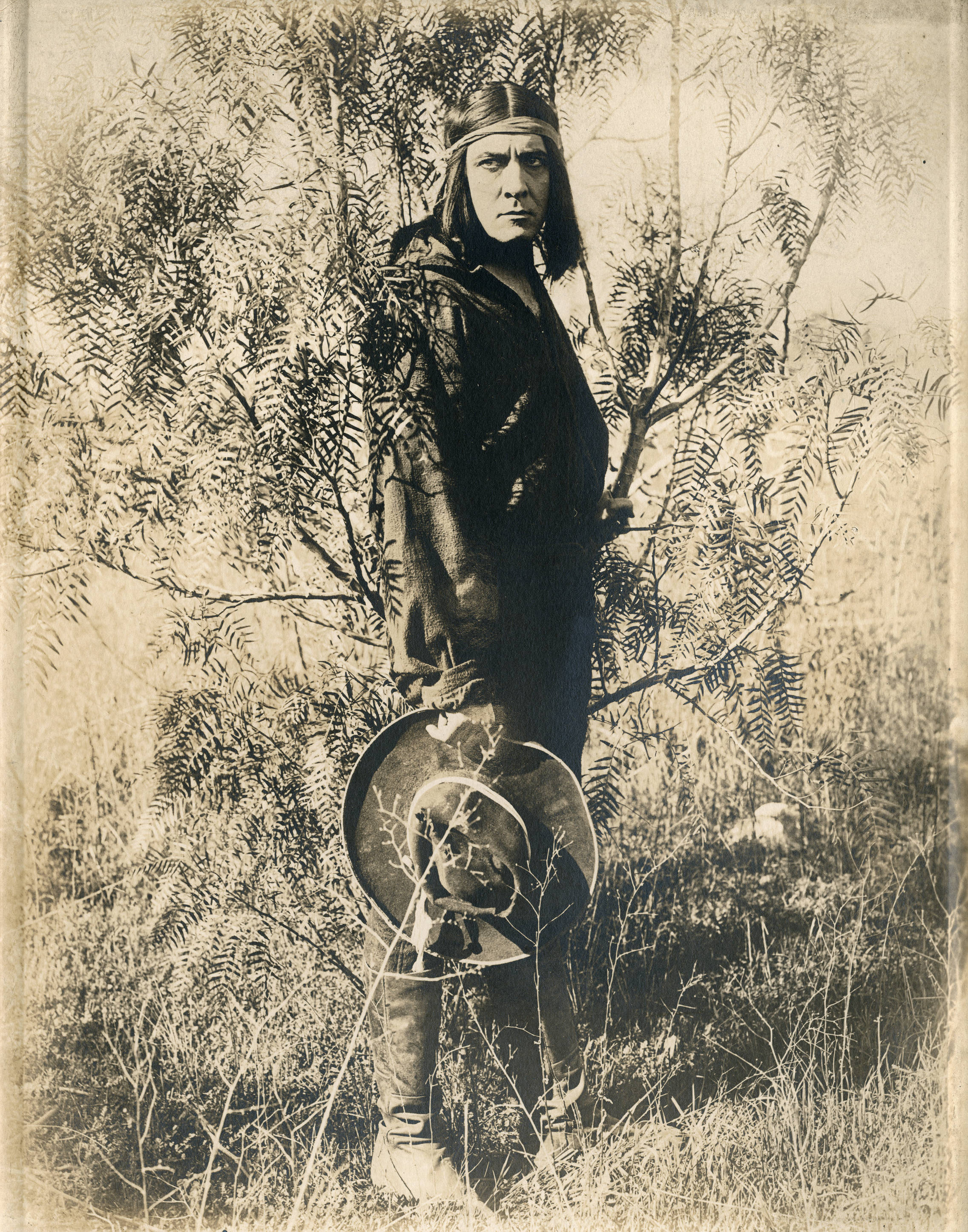 Monroe Salisbury, silent film actor Subjects: actors, motion pictures